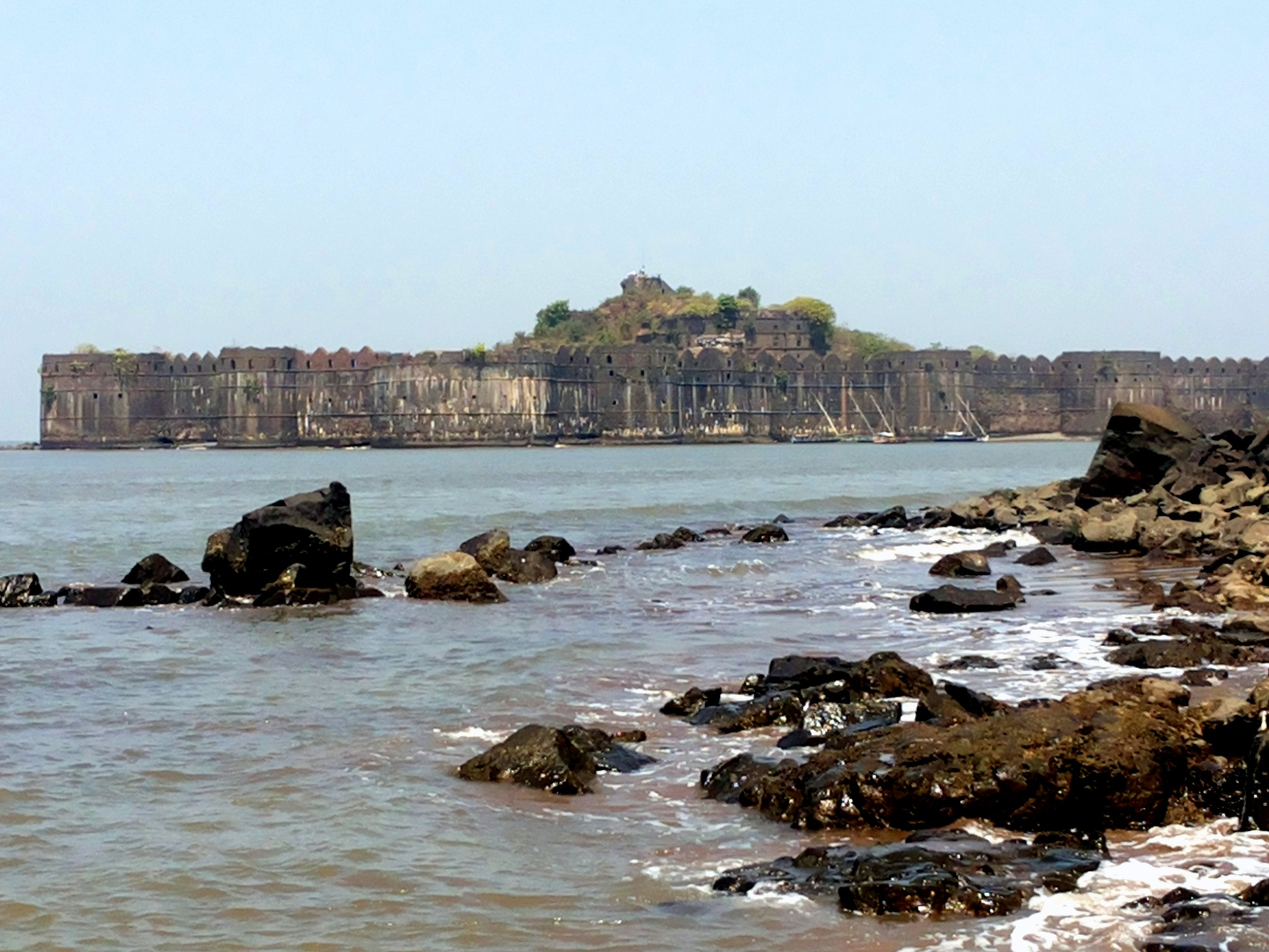 distant view of murud janjira fort